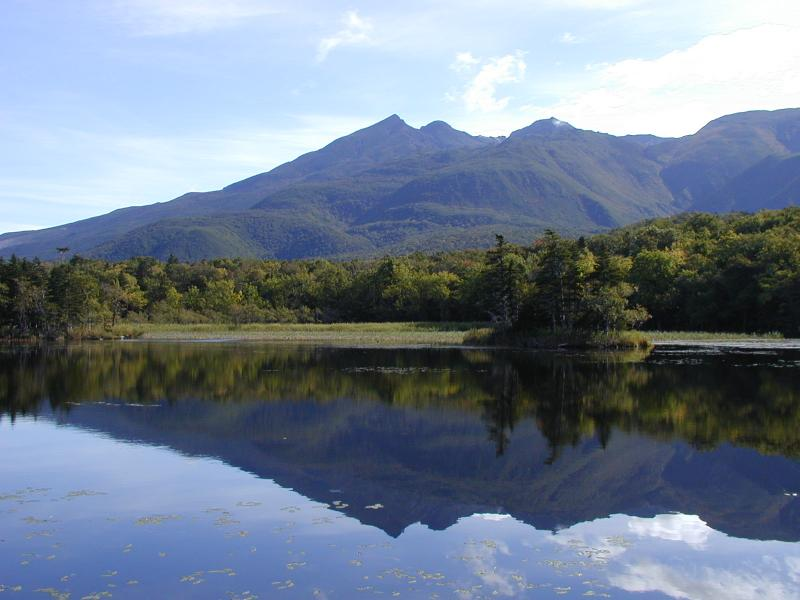 Goko Five Lakes, Hokkaido, Japan.